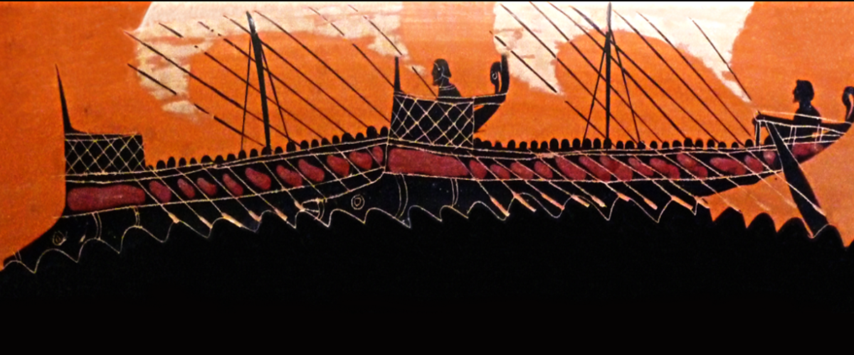 Attic black figure krater from grave no. 1. On the internal surface, around the rim, four ships. Cemetery of Ancient Thera. 3rd quarter of the 6th cent. BCE Archaeological Museum of Thera. Original version of this Photo taken by A. de Graauw, May 2015. This version of the image has been resized to meet a specific need - please note that the new dimensions of this image have been slightly modified and do not accurately reflect the original. This image has also been white balanced and edited to remove the glare.